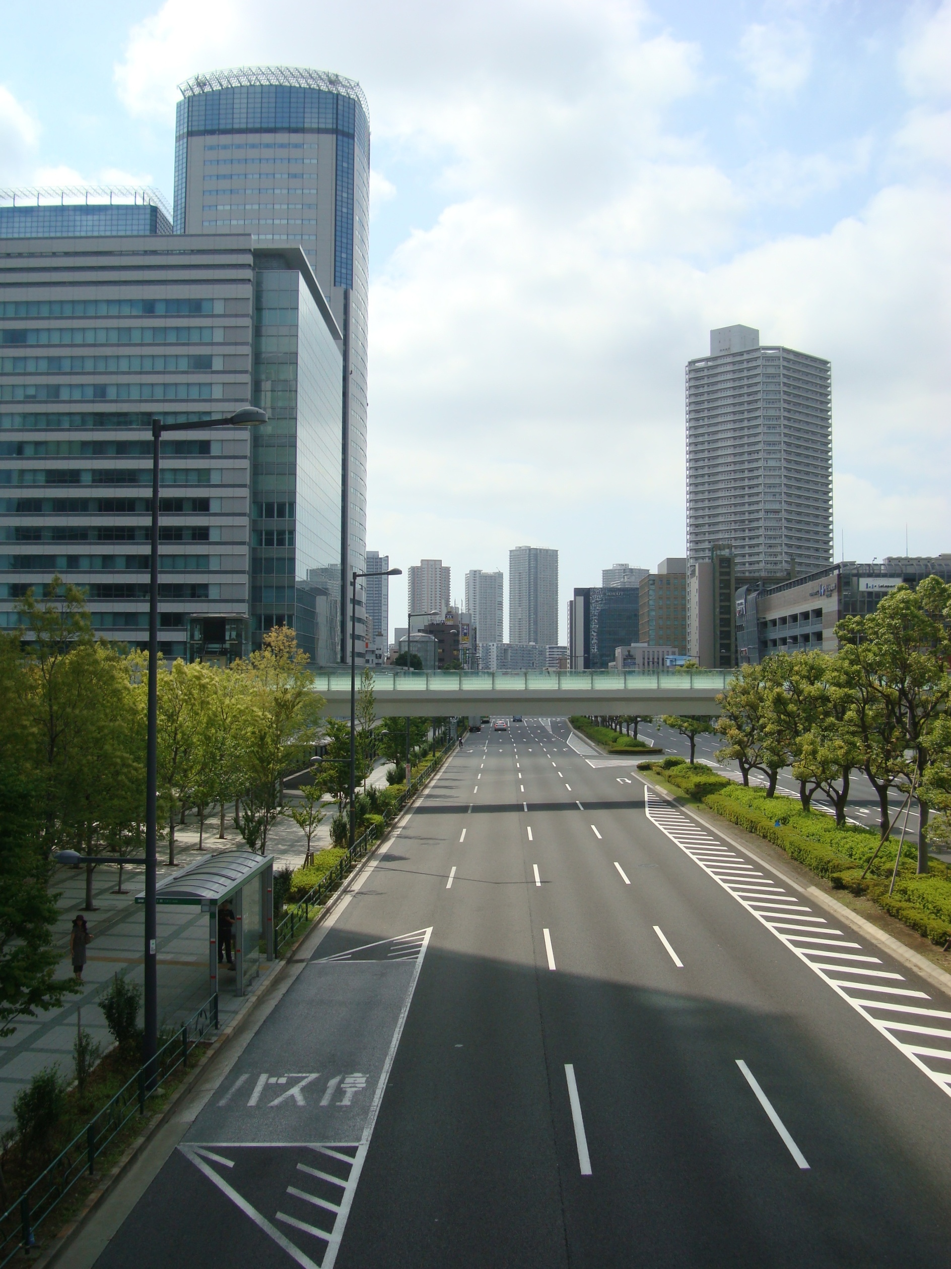 Toyosu district, Koto city, Tokyo